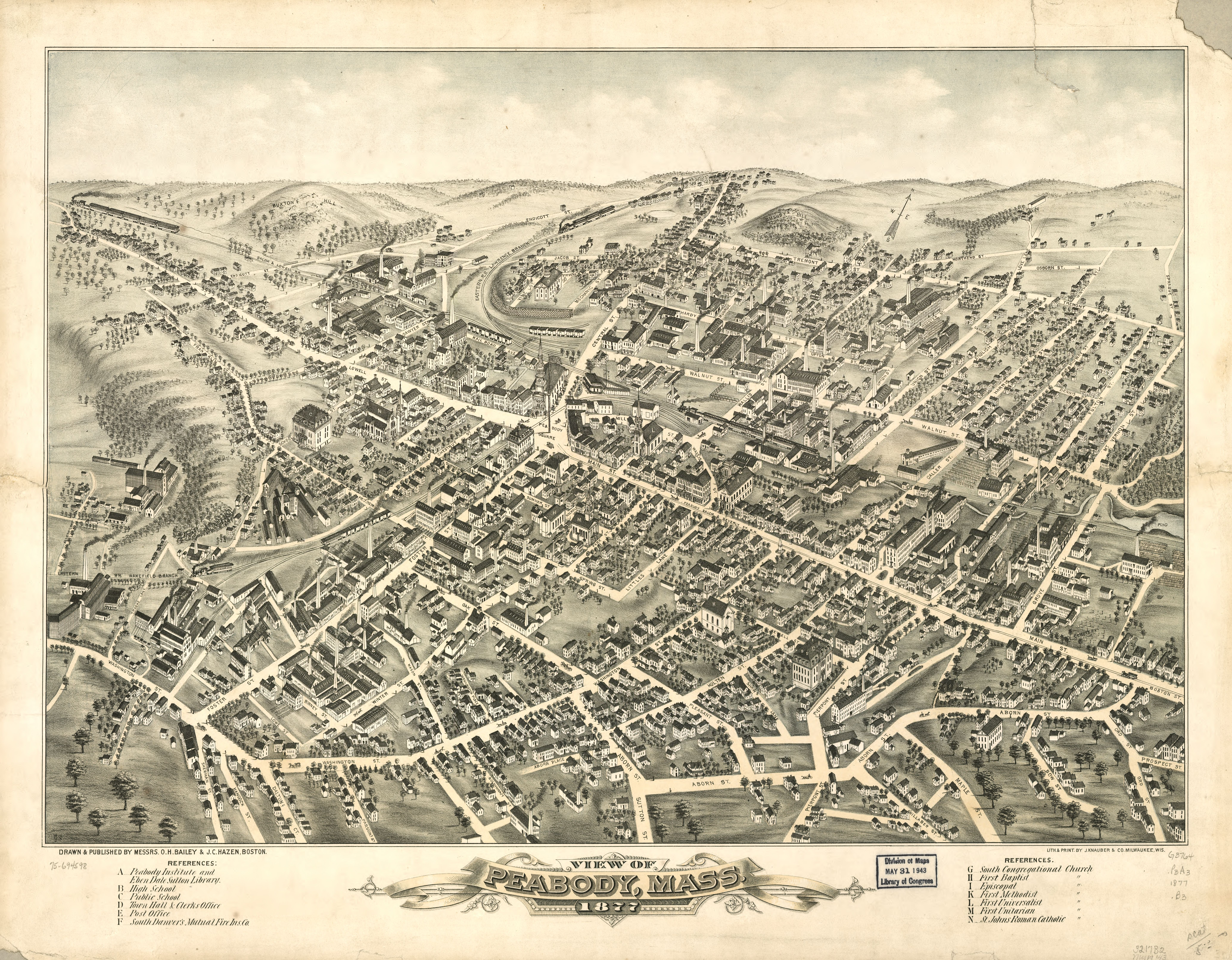 Perspective map not drawn to scale. Bird's-eye-view. LC Panoramic maps (2nd ed.), 318 Available also through the Library of Congress Web site as a raster image. Indexed for points of interest. AACR2